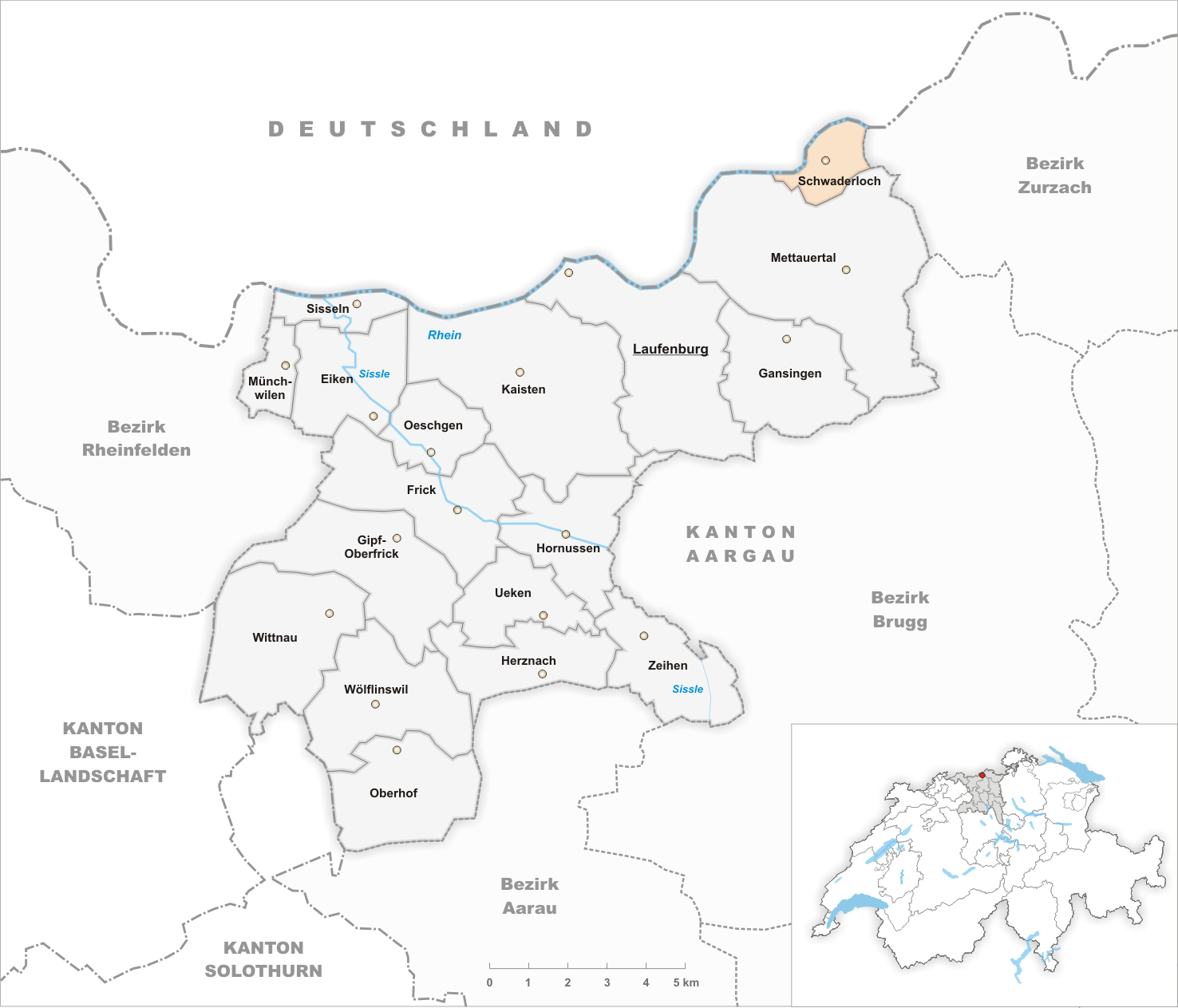 Municipality Schwaderloch